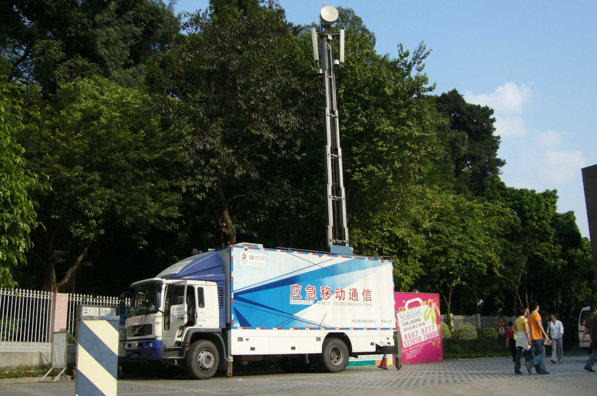 An emergency mobile telecomunication car of China Mobile.